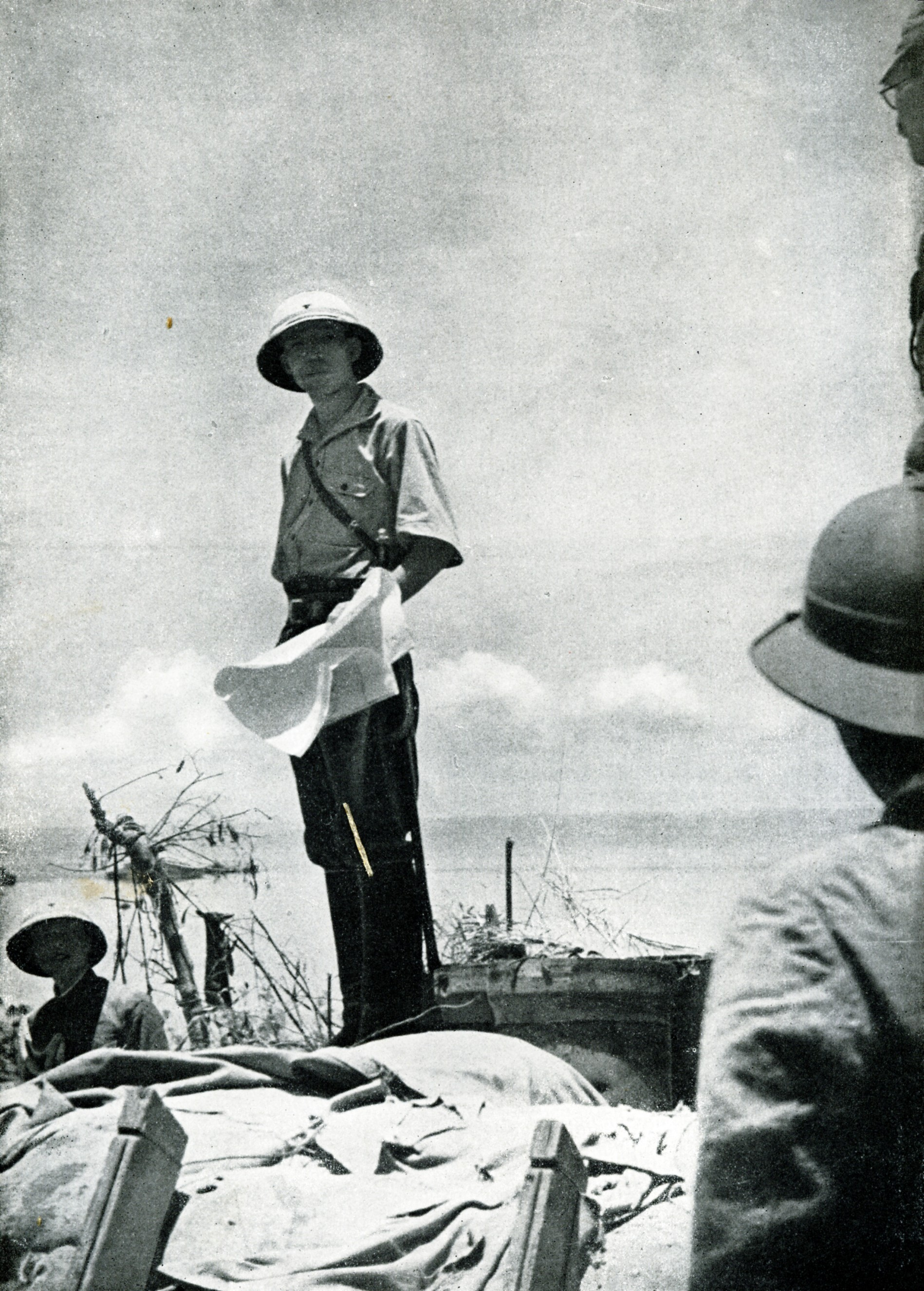 東久邇宮盛厚 or Higashikuninomiya Morihiko, a member of Higashikuninomiya imperial family.